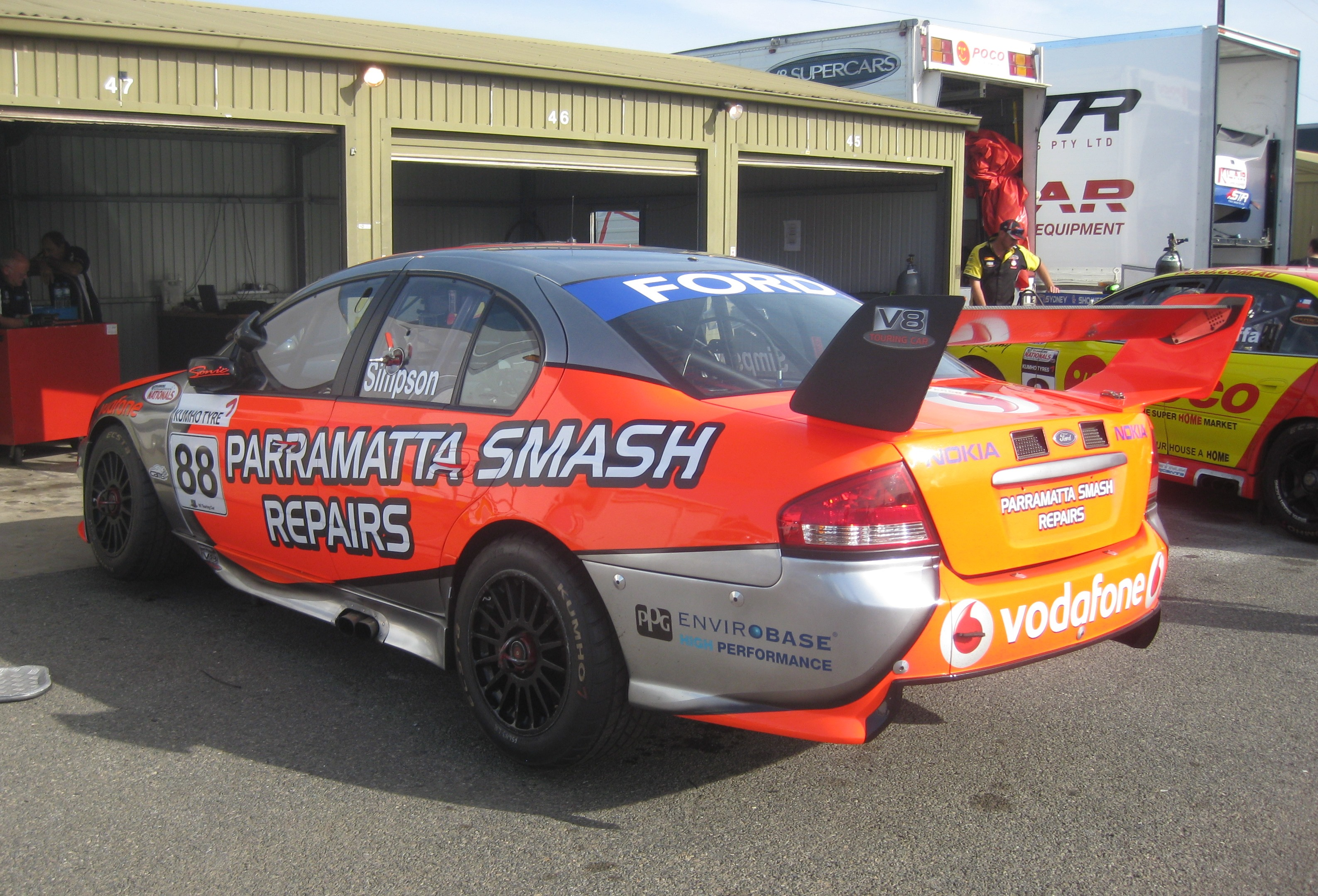 The Ford Falcon (BF) of Ryan Simpson at Mallala Motor Sport Park on 27 April 2014. Simpson was contesting Round 1 of the 2014 Kumho Tyres Australian V8 Touring Car Series